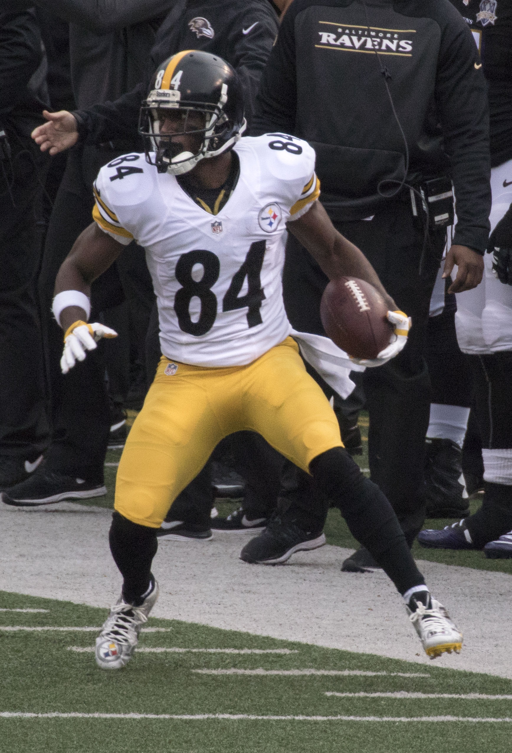 Steelers at Ravens 12/27/15